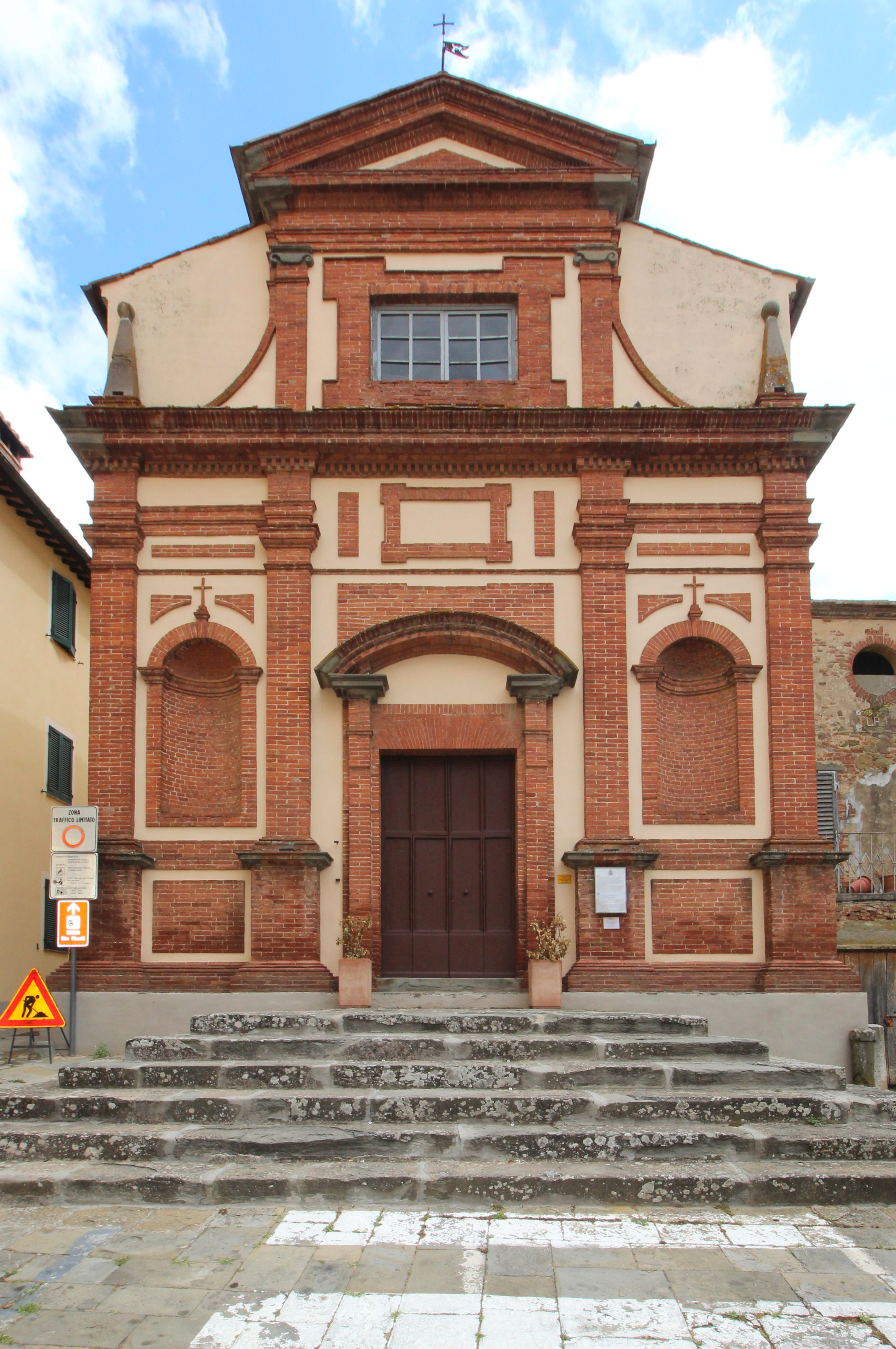 Church Santa Croce, Sinalunga, Valdichiana, Province of Siena, Tuscany, Italy